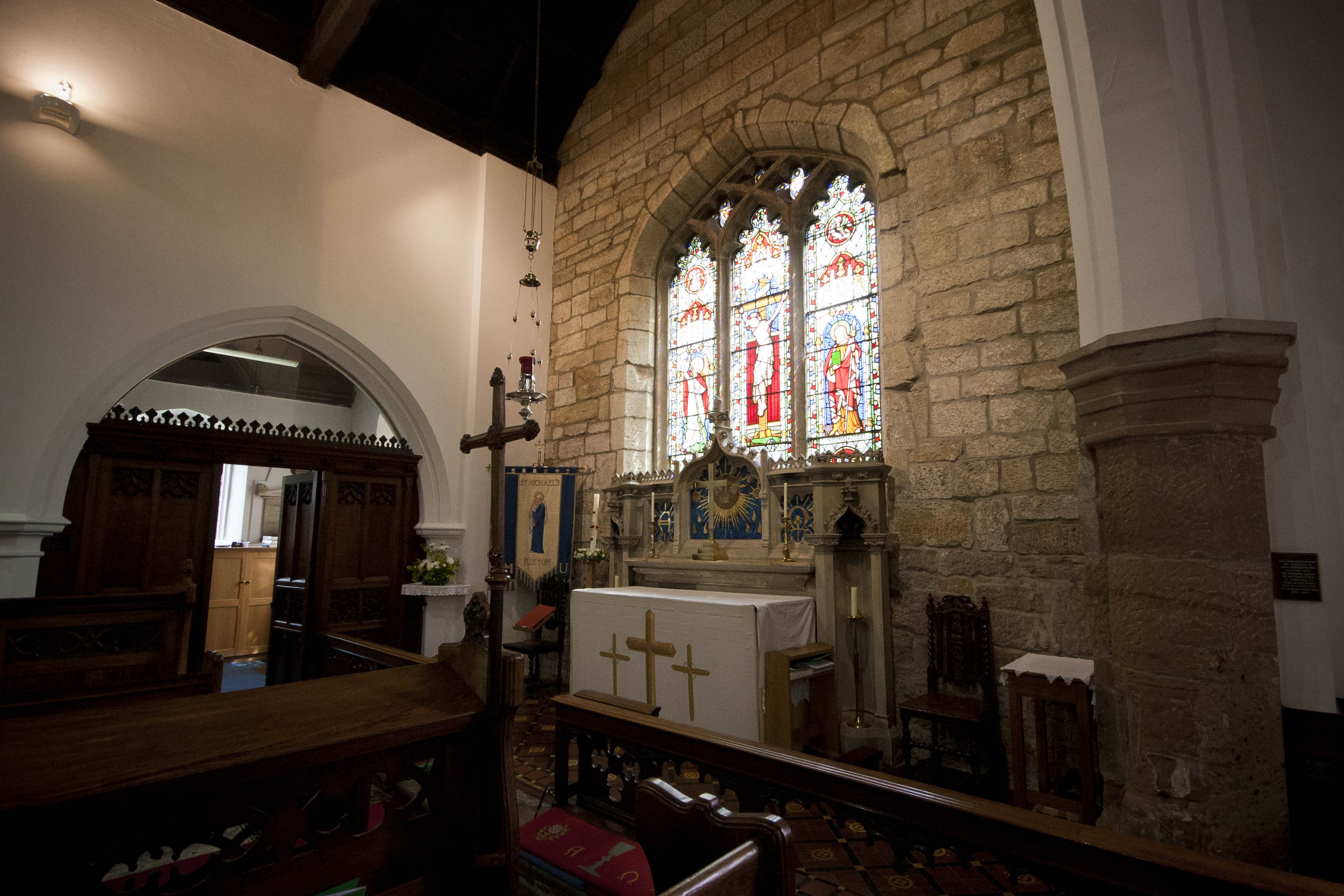 Interior of St Michael's Church, Flixton, Greater Manchester